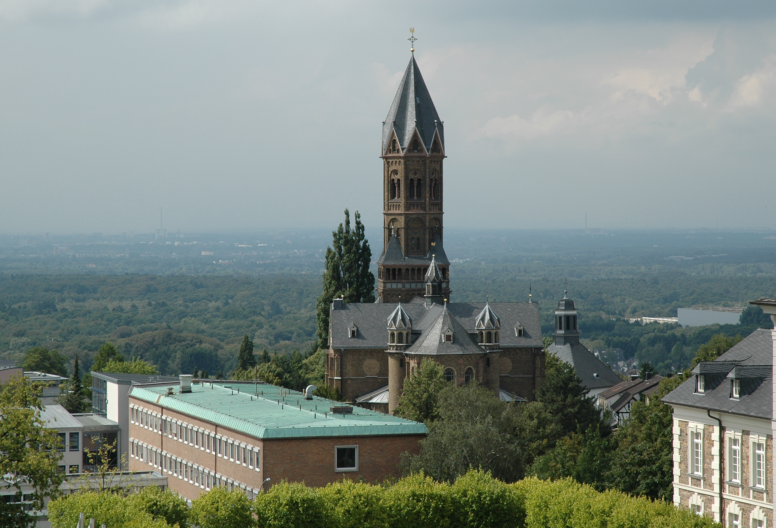 View from Bensberg Castle of Catholic church St. Nikolaus, Bergisch-Gladbach, and the Lower Rhine area around Cologne and Leverkusen.